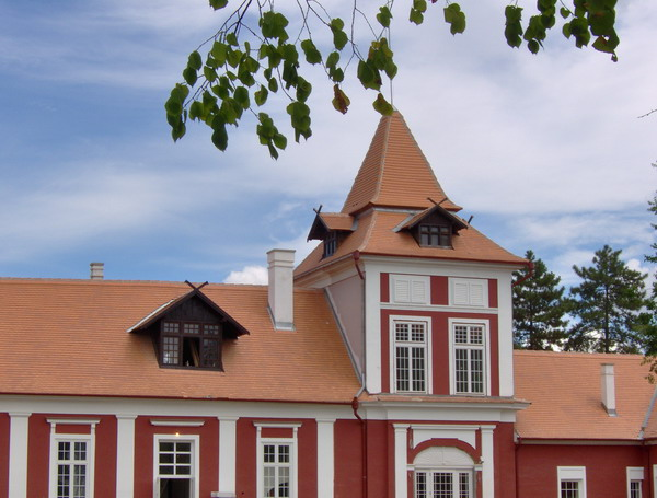 Kaštel Castle in Ečka, Vojvodina, Serbia, built in 1820 Count Lukács.